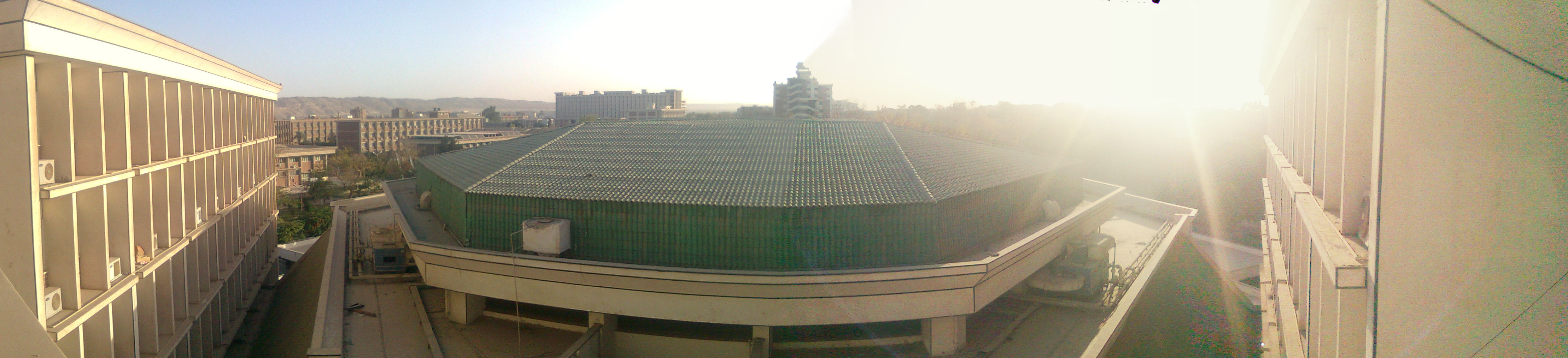 Assiut University managerial building Panorama by Ahmad A. Mageed